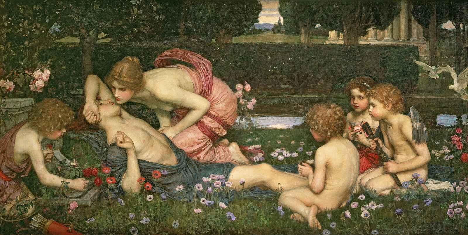 See Sotheby's: Waterhouse's great mythological subject The Awakening of Adonis (Collection of Lord Lloyd-Webber) was painted in 1899, but was not finished in time to send to the Royal Academy that year, and was therefore held over to the summer exhibition of 1900. On that occasion it was recognised as one of the artist's most powerful and characteristic works and one that aimed, in the words of one reviewer, "at representing the passionate emotions of an historic tragedy in a highly dramatic fashion" (Athenaeum, 1900, p.568). The painting may be seen as one in a series of spectacular and challenging works by Waterhouse, each of which show moments of fateful confrontation between the gods and mortals of Greek and Roman legend, and may be compared to Hylas and the Nymphs (Manchester City Art Gallery) and Flora and the Zephyrs (offered in these rooms, 6 November 1996, lot 307), of 1896 and 1897 respectively. The series ended with the painting Nymphs Finding the Head of Orpheus (private collection), exhibited in 1901, the year after The Awakening of Adonis.